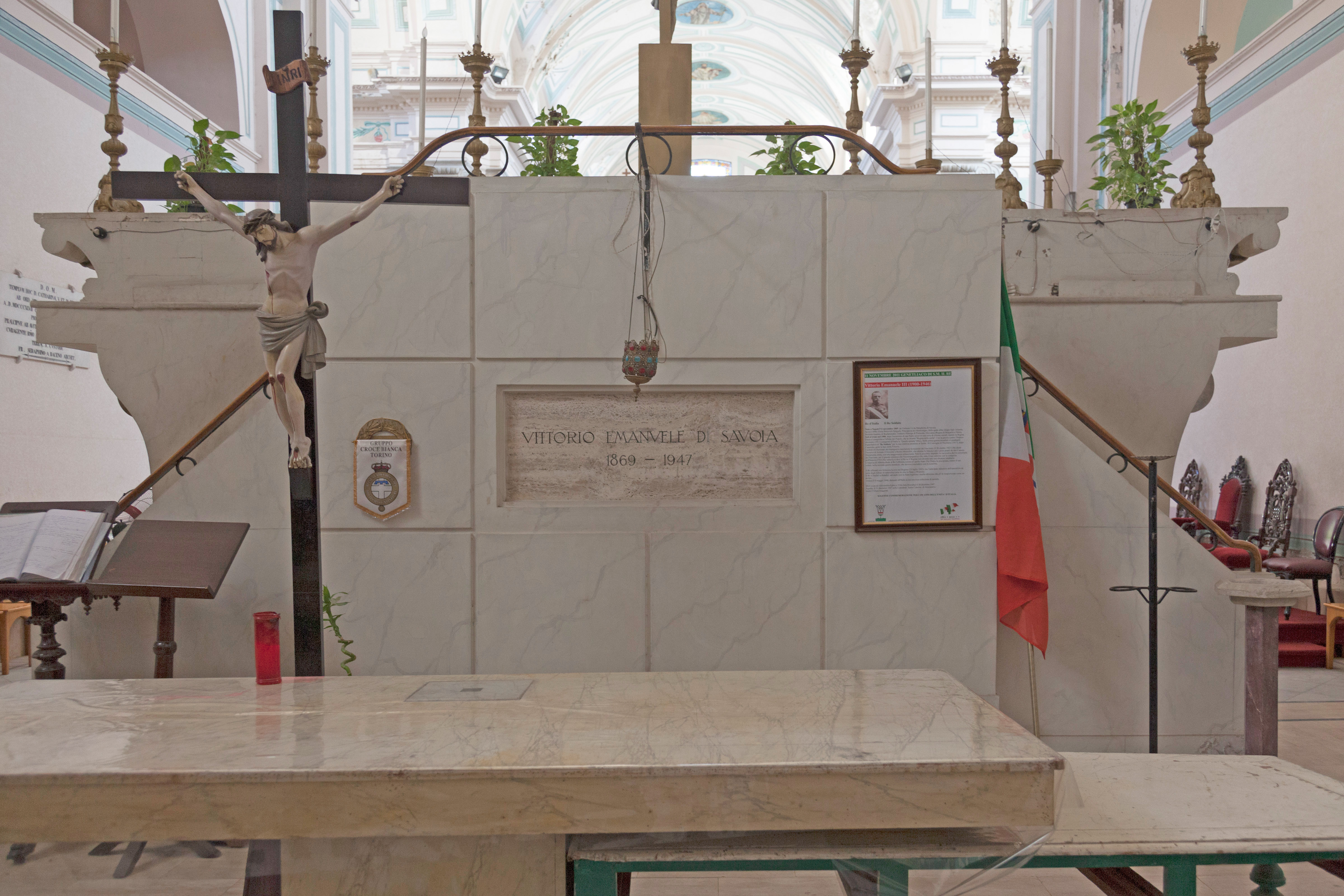 Former burial place of the Italian king Victor Emmanuel III behind the main altar of the St. Catherine Cathedral in Alexandria, Egypt